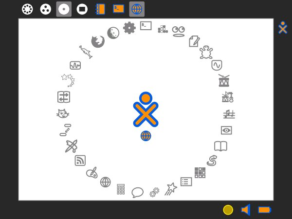 Sugar UI Home View (version 0.82)